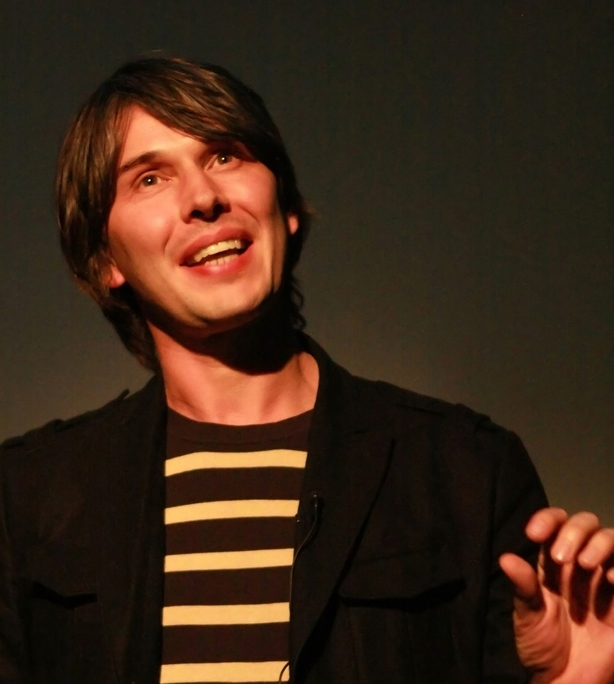 Professor Brian Cox, speaking at the Royal Institution, London, 26 November 2009